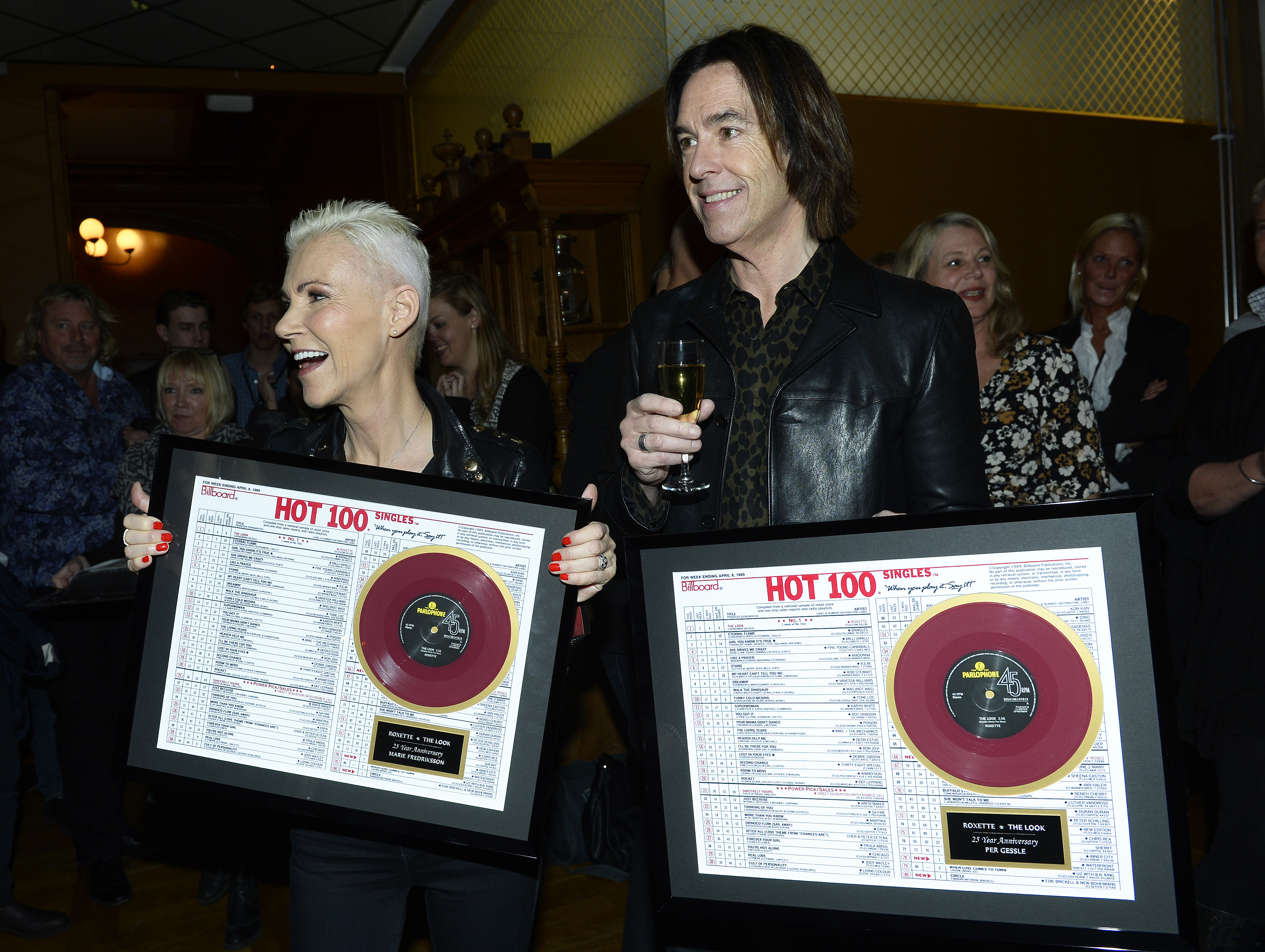 Roxette (Marie Fredriksson and Per Gessle) celebrate the 25th anniversary of their single "The Look" reaching the top spot on the Billboard Hot 100.